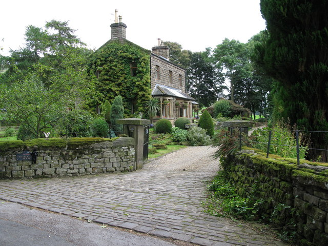 Wath Old Station Along the route of the long dismantled Nidd Valley Light Railway.